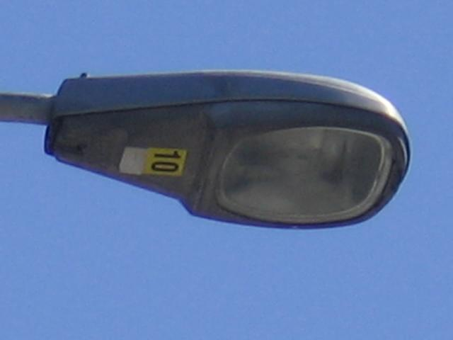 History of street lighting